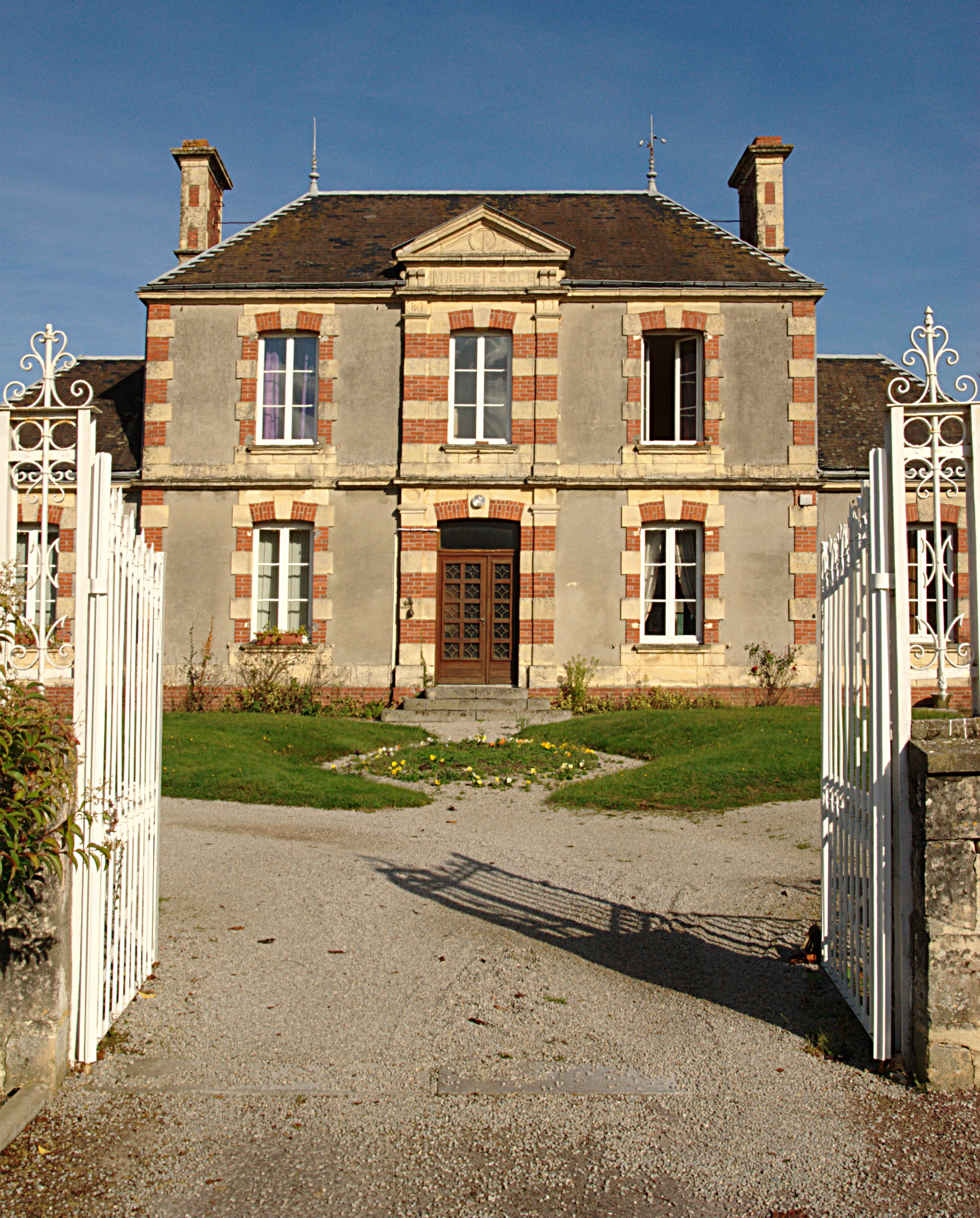 The Town hall of Maisoncelles-Pelvey, Calvados, French.